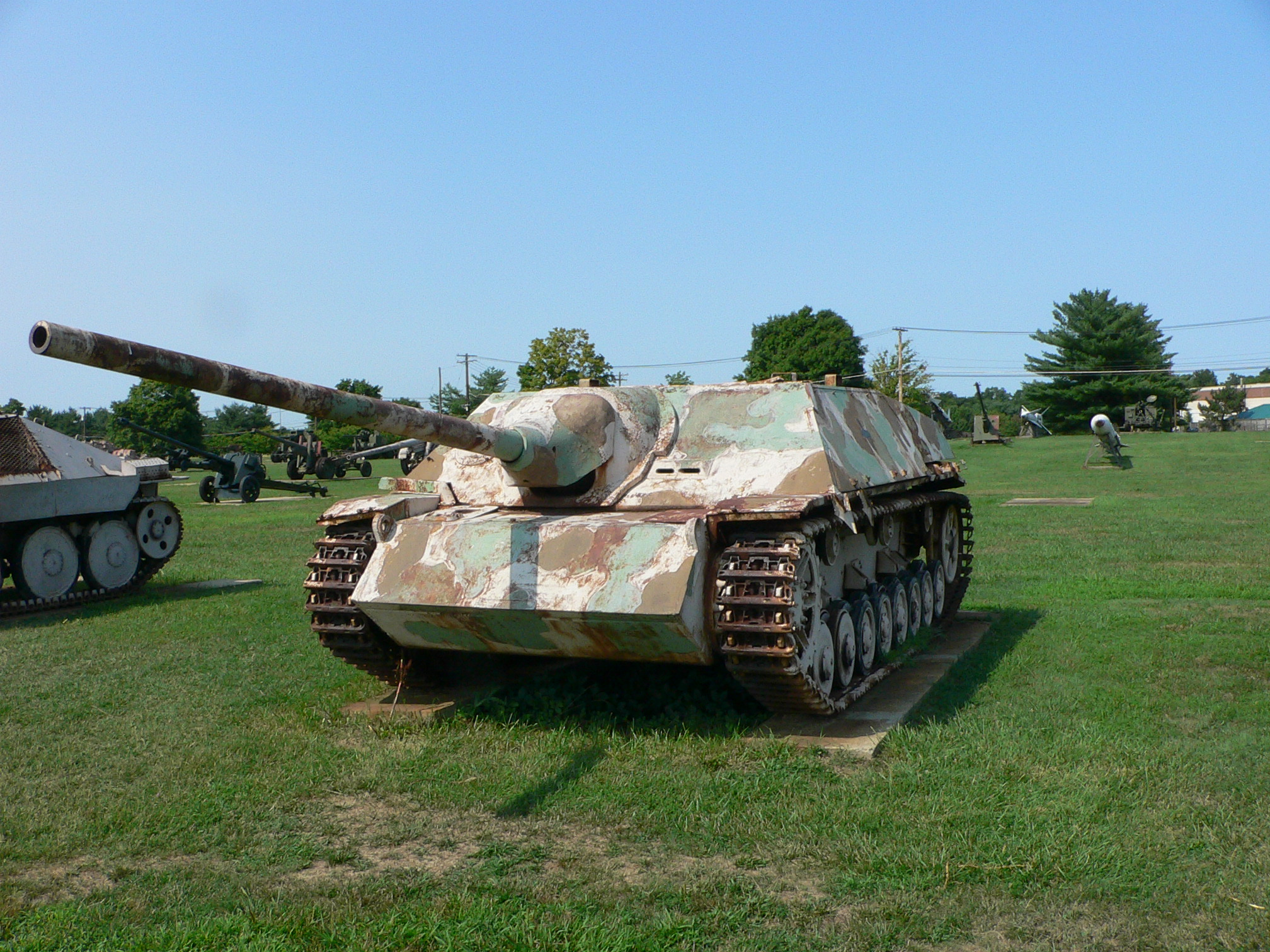 Picture taken by myself, Mark Pellegrini, at the United States Army Ordnance Museum (Aberdeen Proving Ground, MD) on August 14, 2007.